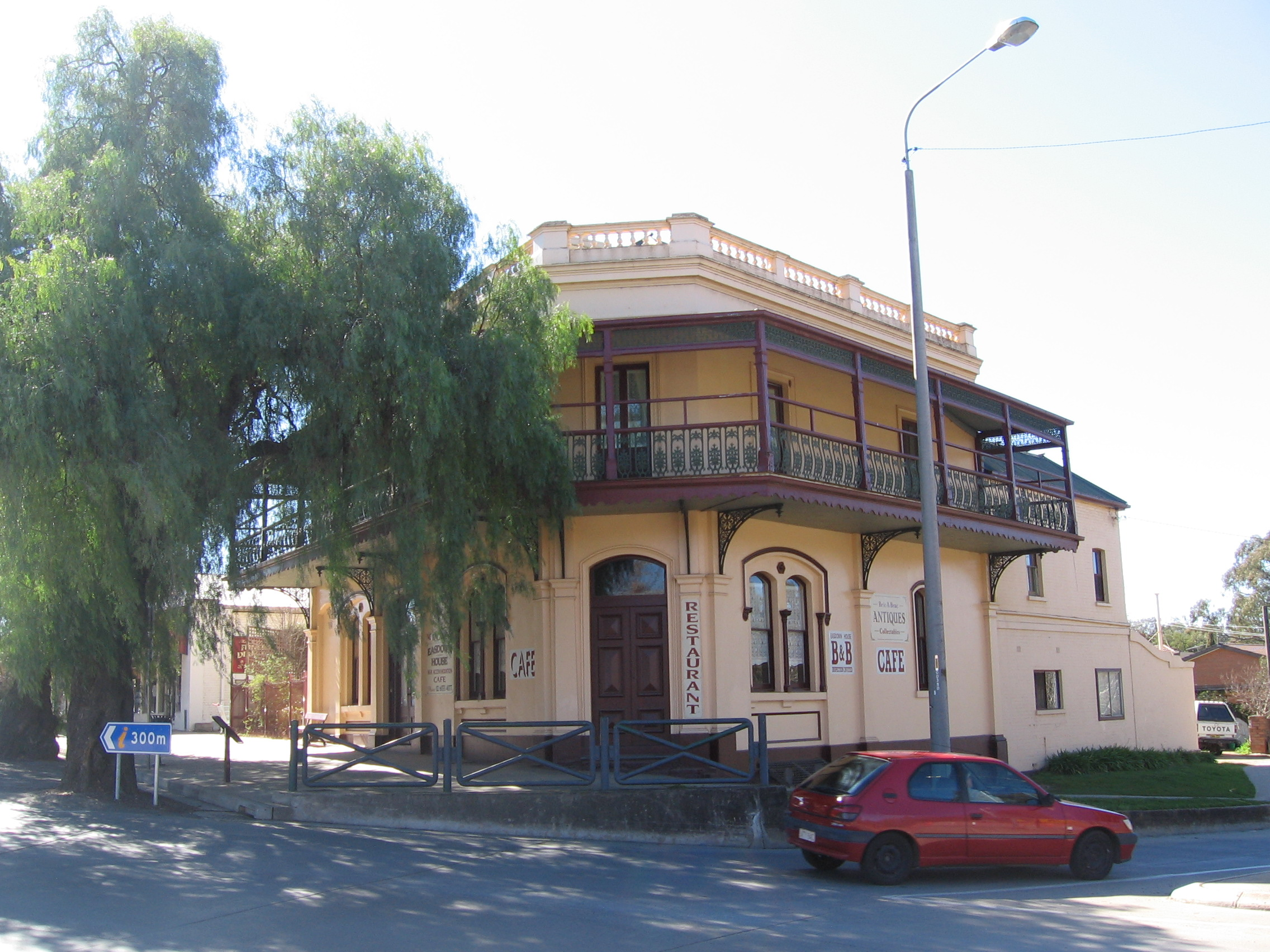 A Bed & Breakfast at Corowa, New South Wales